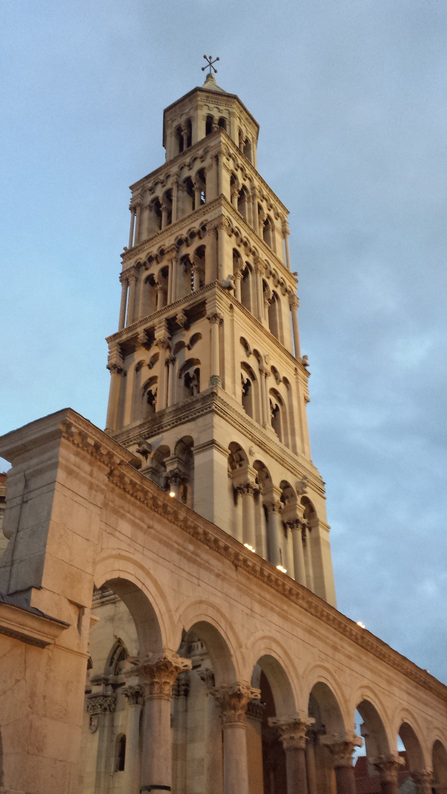 Saint Dominus Cathedral Bell Tower in Split, in Diocletian Palace